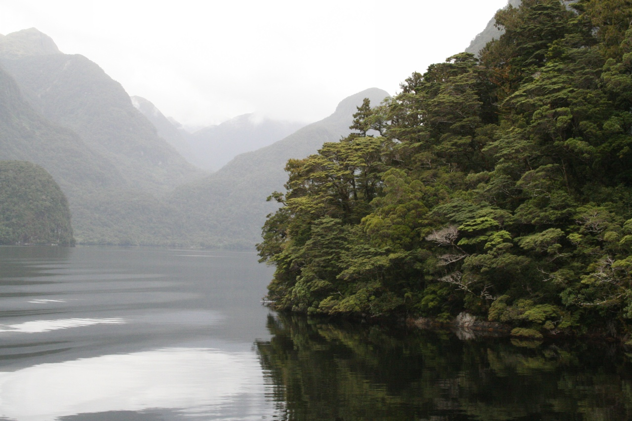 Doubtful Sound - View 01.